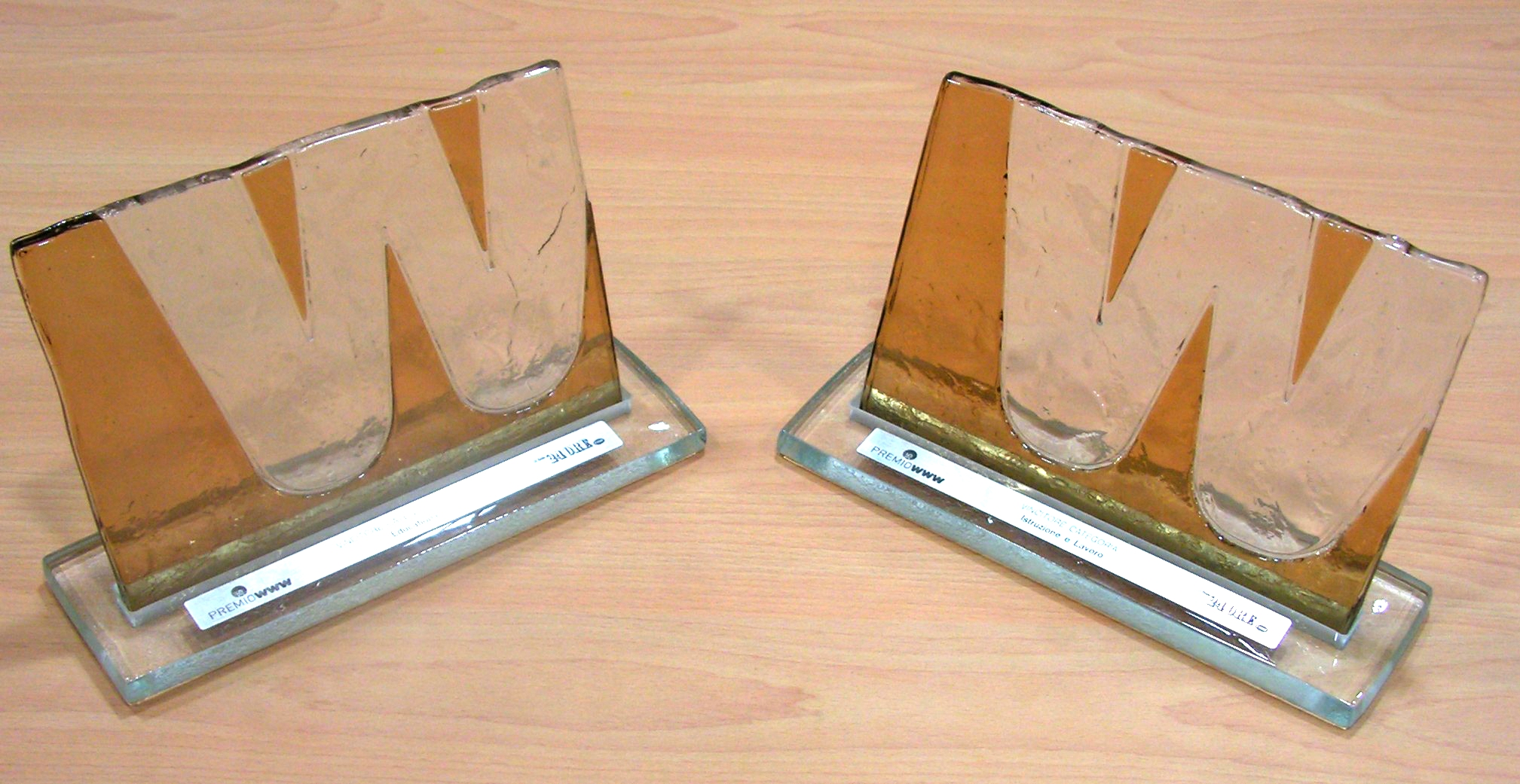 Premio WWW 2005 assigned December, 14th 2005 to it.wikipedia for best website in the category "Education and Work" (right) and special prize "Internet Educational" in collaboration with the Italian Ministry of Technology and Innovation (left)